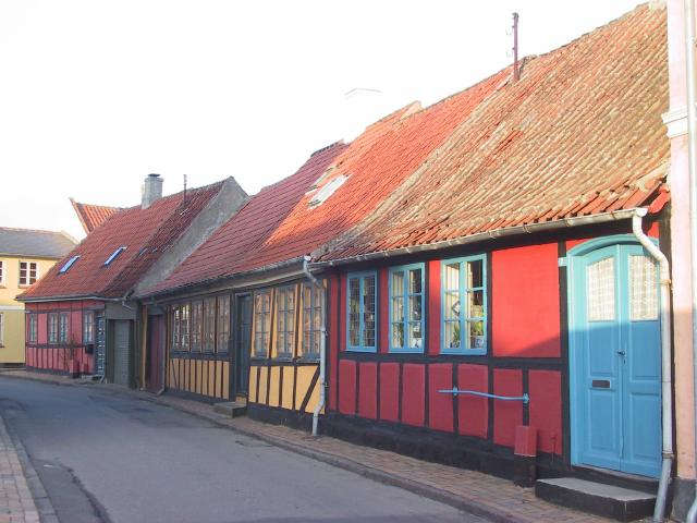 Street with old houses in the Danish town Kerteminde on the island Fyn/Funen (higher resolution version will be contributed later)